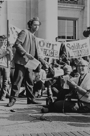 Mario Savio on Sproul Hall steps at UC Berkeley in 1966. This picture was taken in 1966 at a rally in Berkeley. The University had banned the distribution of political material on campus; the rally protested this ban. Mario Savio made an appearance and deliberately handed out material on steps as a part of the protest. Photo taken and owned by the poster.